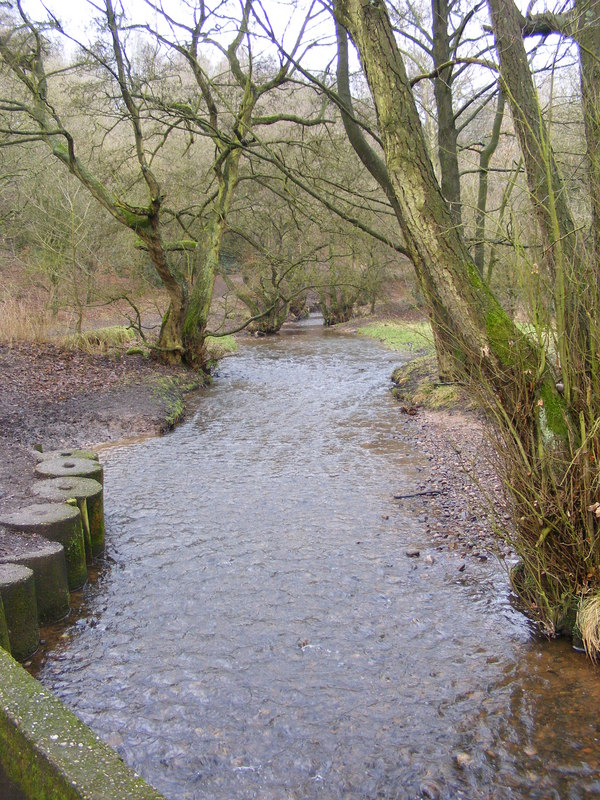 Downs Banks Brook The Brook near the south entrance to the National Trust Site off Wash Dale Lane, Oulton.